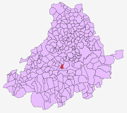 La Hija de Dios